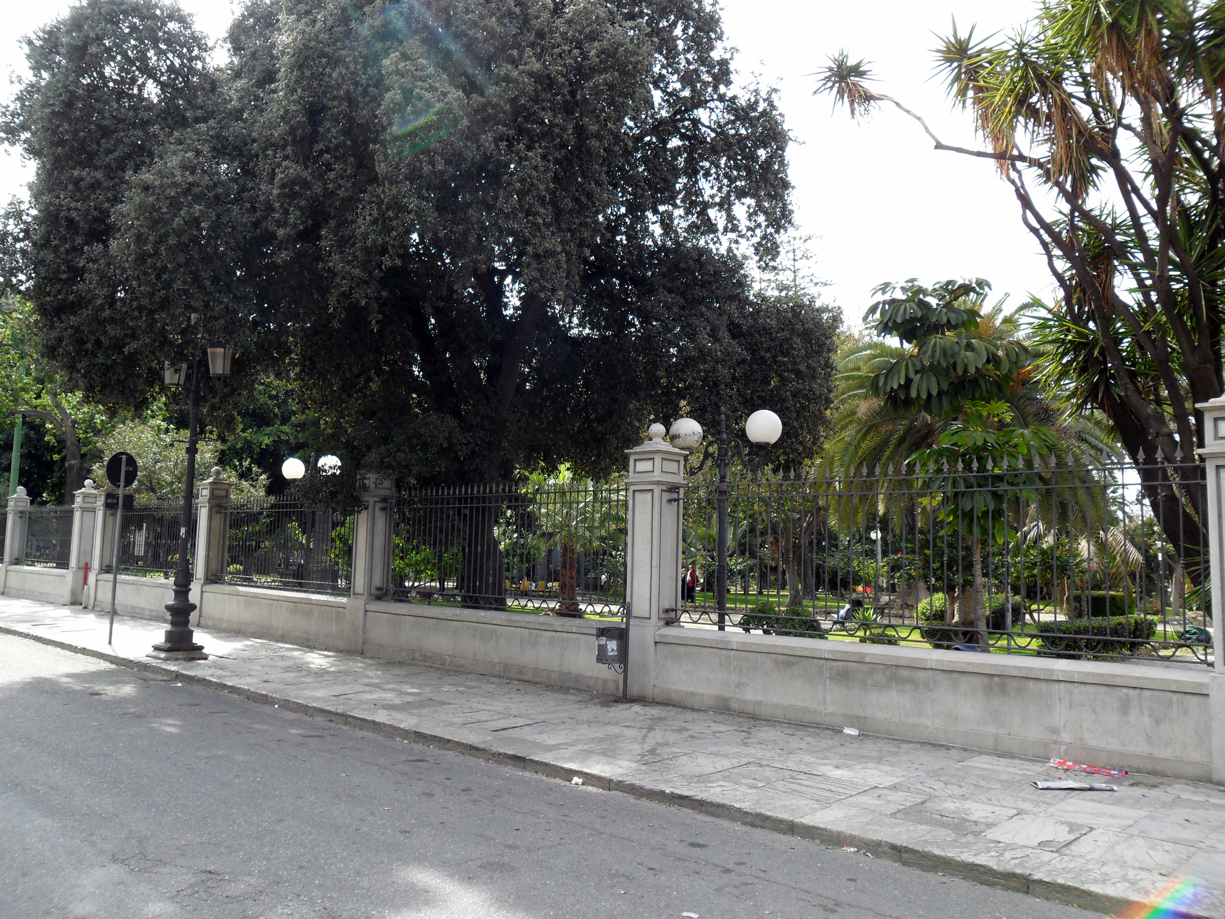 Garden in Reggio Calabria